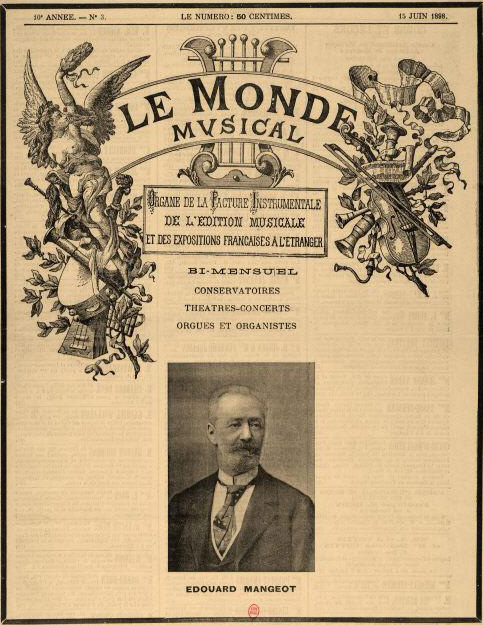 The first page of French magazine "Le Monde musical" from June 15, 1898, with the portrait of its founder Edouard Mangeot (1835–1898).